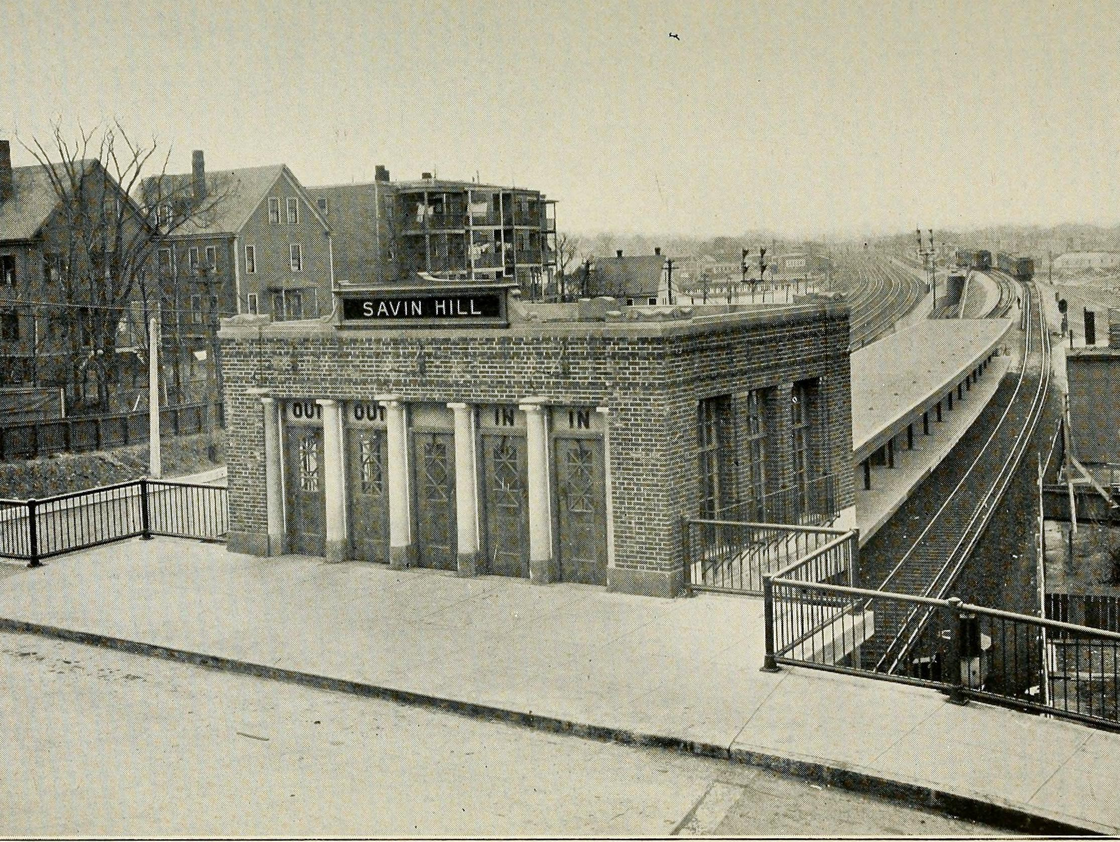 Savin Hill station in 1927, around the time of its opening